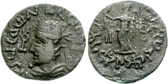 Coin of the Indo-Parthian king Sarpedones